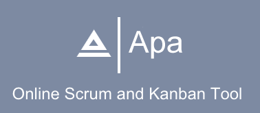 Apa logo